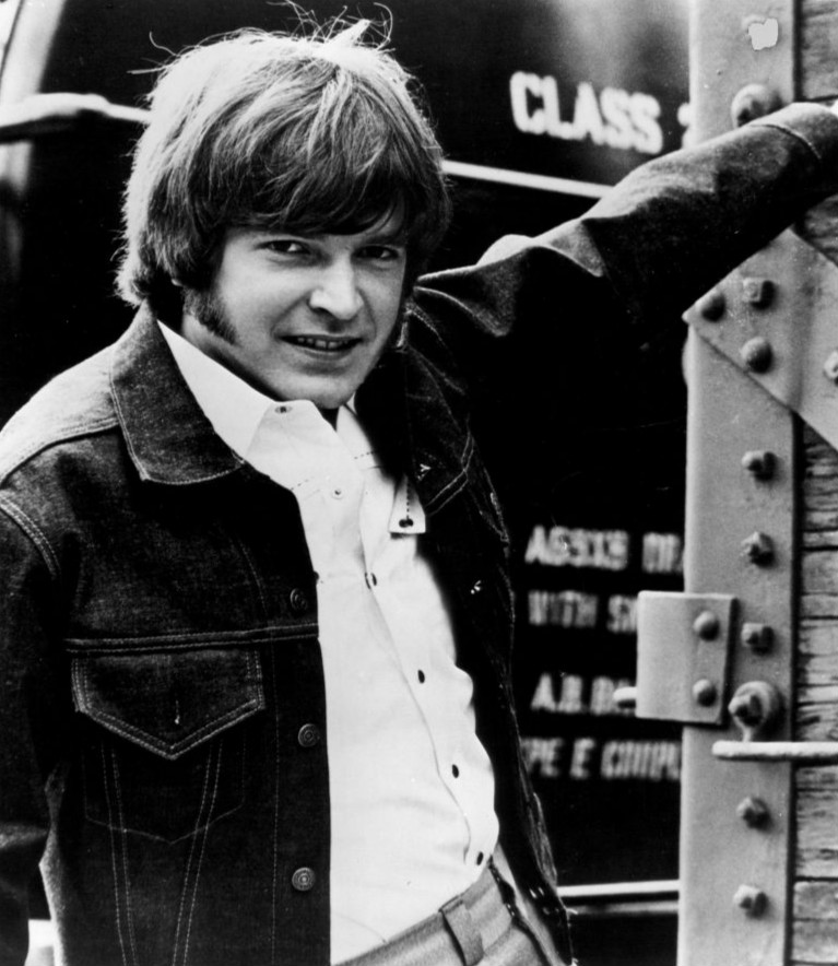 Photo of musician Freddy Weller.